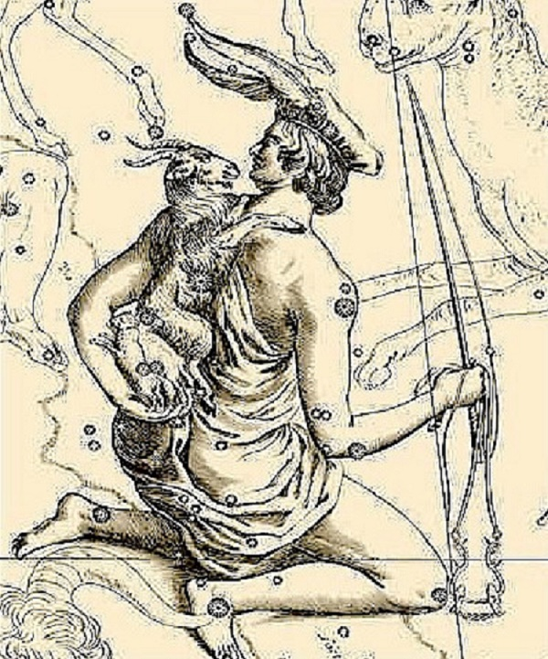 Auriga Constellation